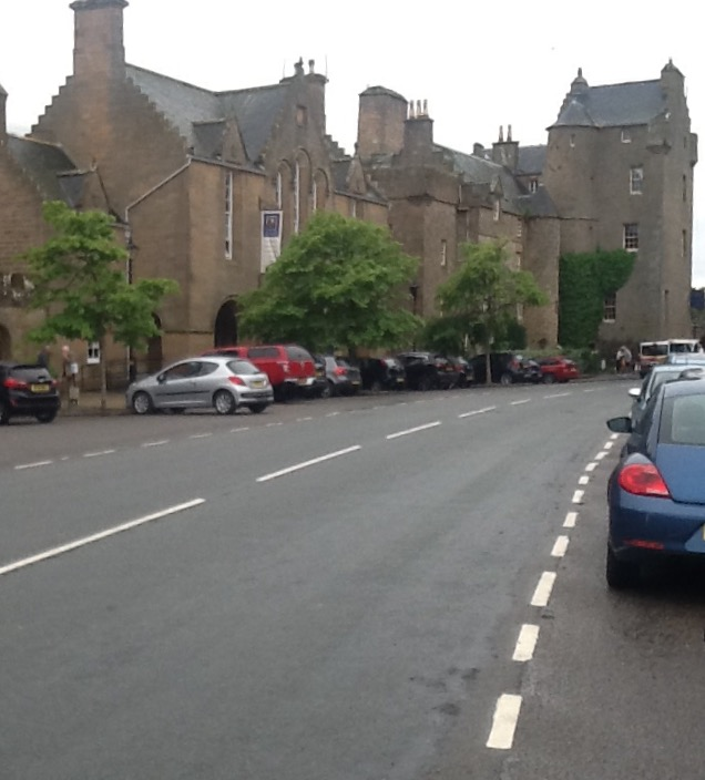 This is an image of Dornoch town centre, Sutherland, Scotland